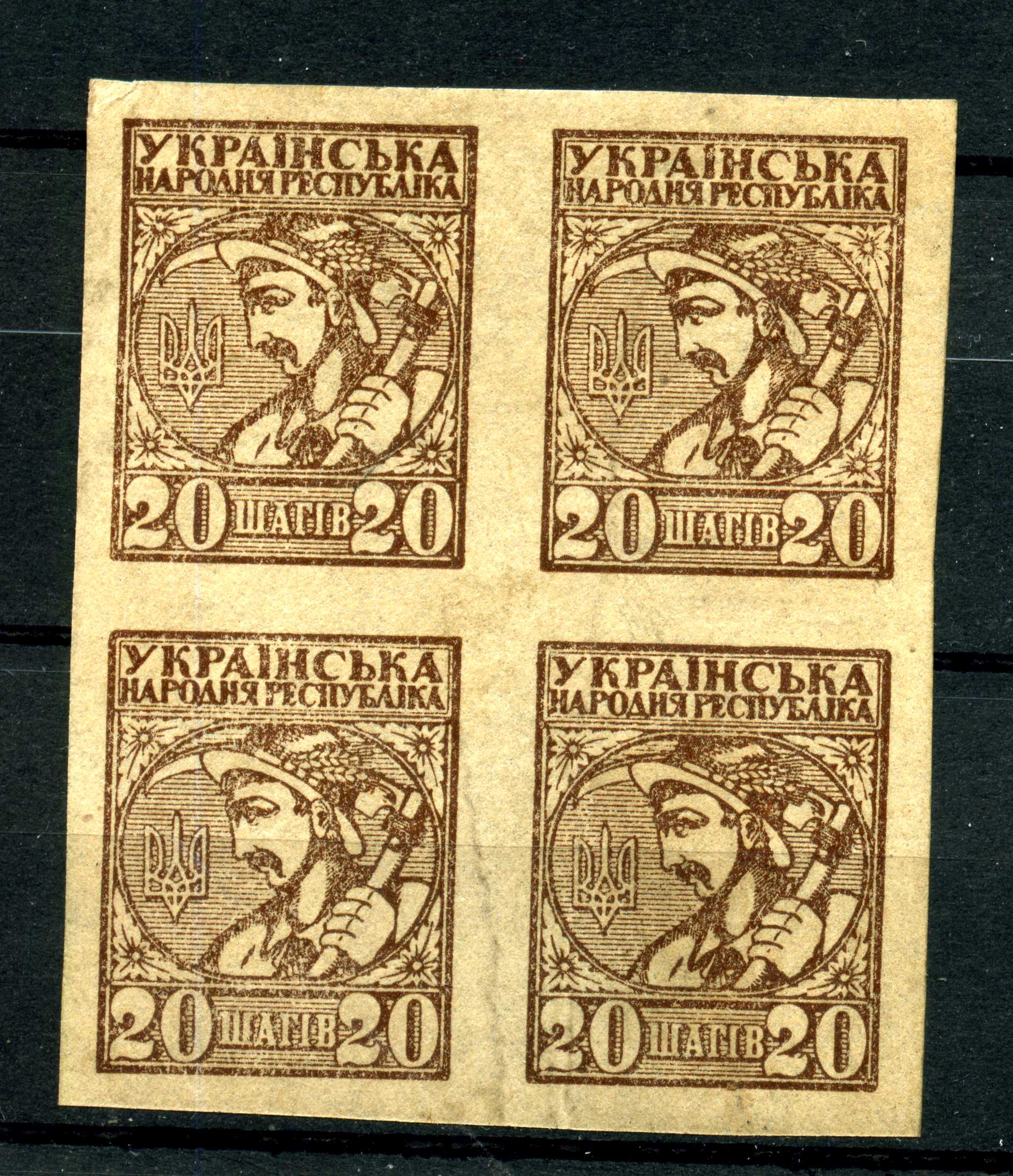 Post stamps of Ukraine